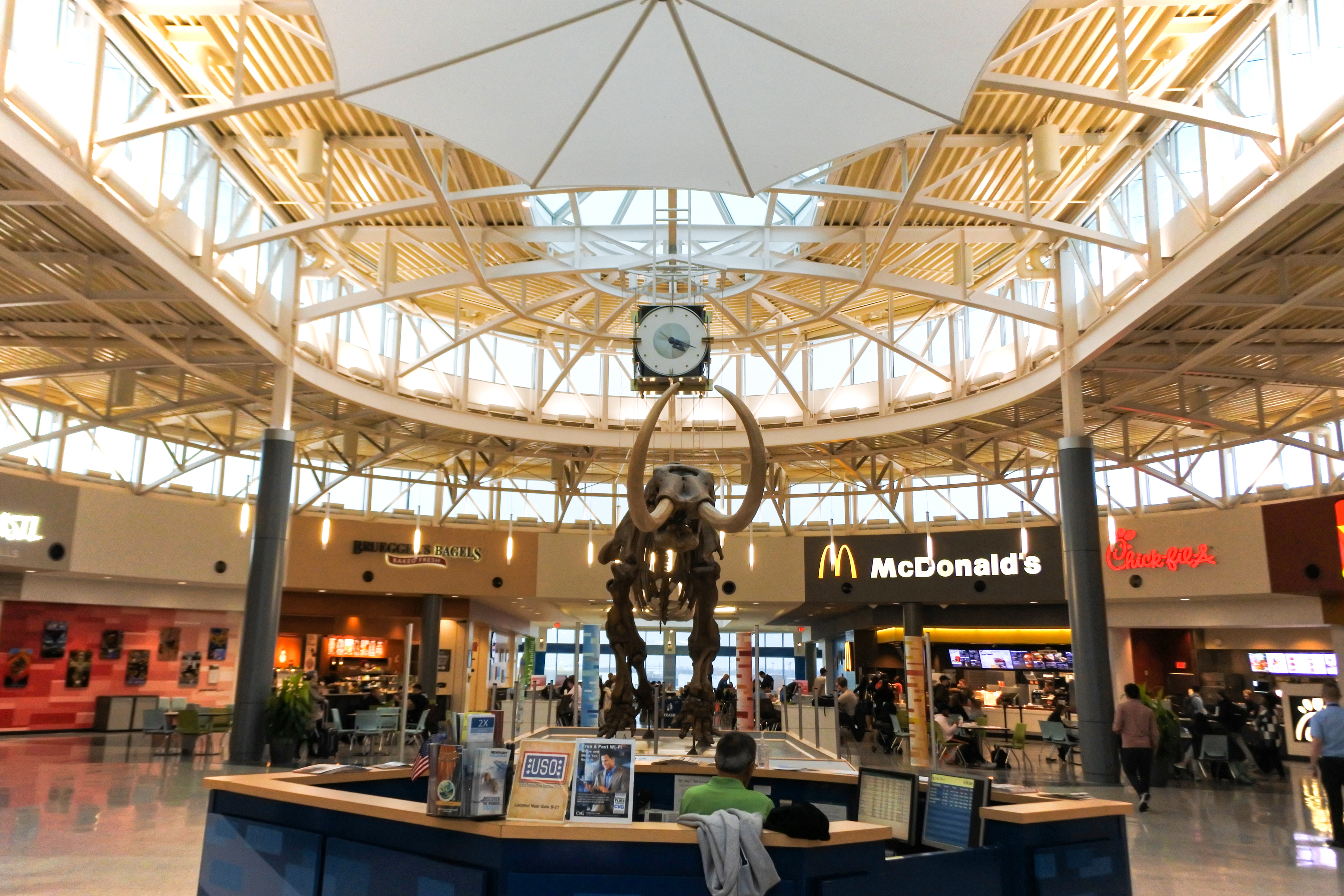 Concourse B food court at Cincinnati/Northern Kentucky International Airport